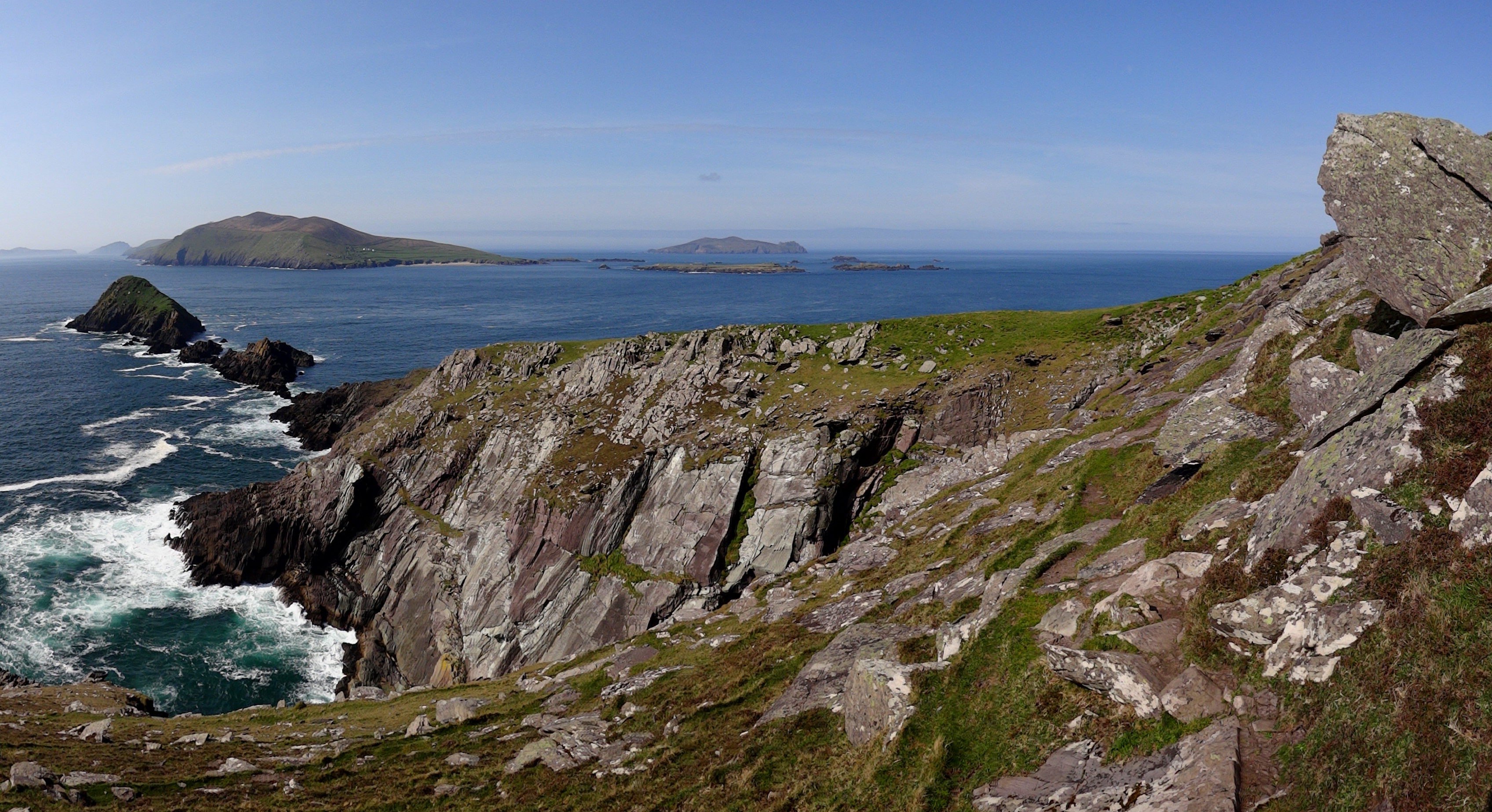 The very tip of Dunmore Head, the westernmost point of Ireland, excluding islands, and most of the Blasket Islands showing in the background. In the back to the right is Inis Tuaisceart, in front of it the small Beginish, largest island to the right is Great Blasket Islands, and in the back to the right are Inishnabro and Inishvickillane. Tearaght Island is hidden behind the Great Blasket Island.